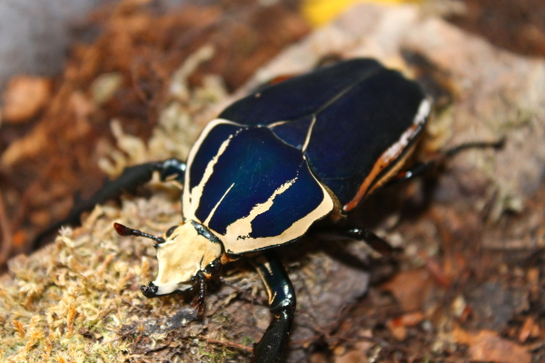 A blue male of Mecynorhina torquata ugandensis